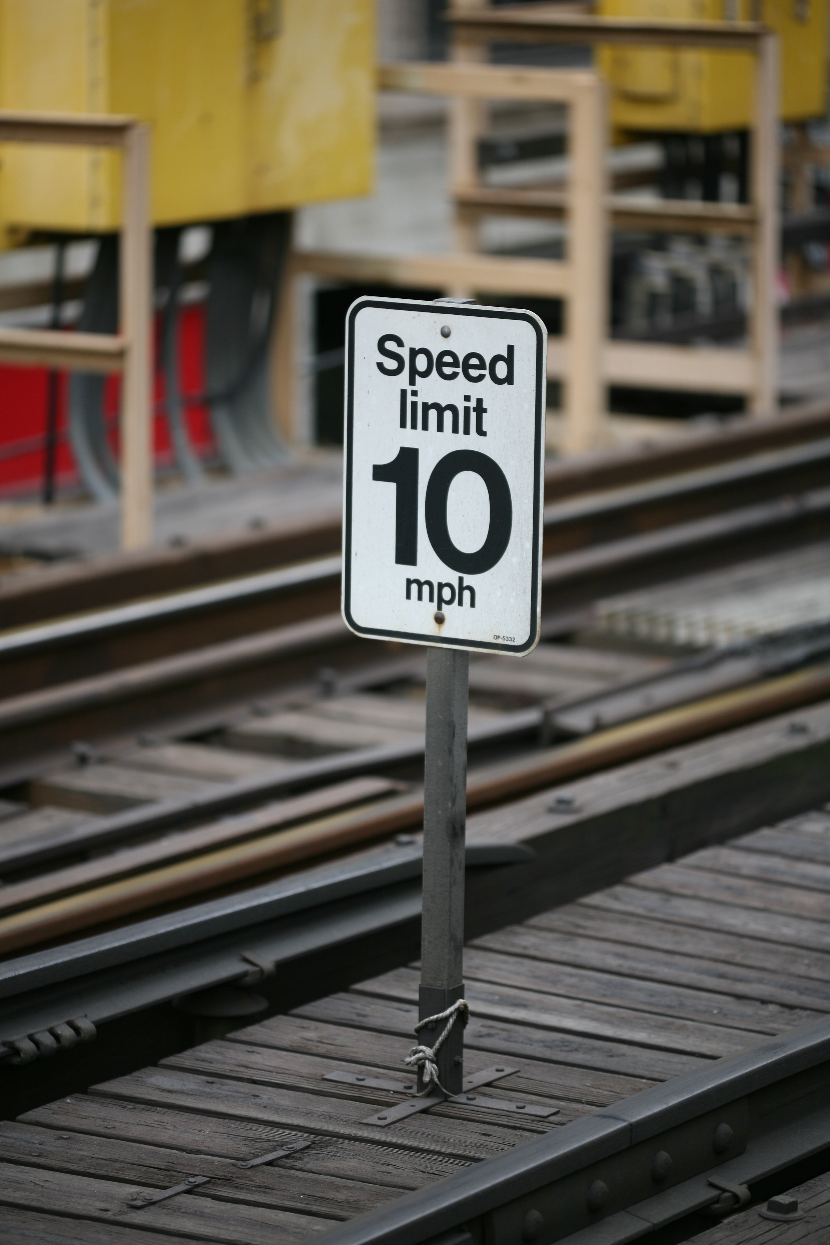 Speed limit sign on the Chicago elevated.